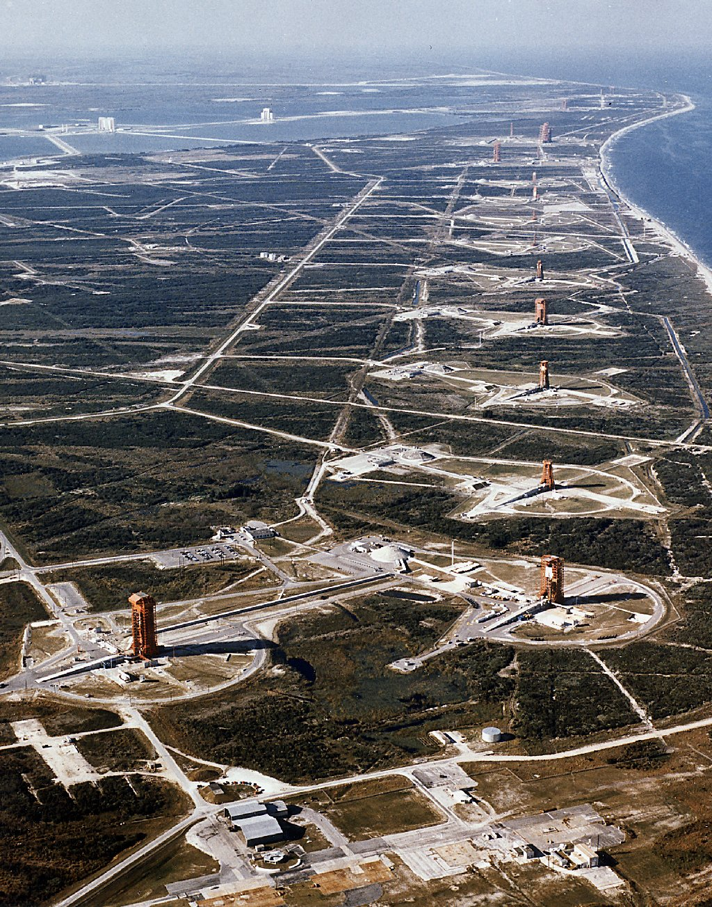 Overall aerial view of Missile Row, Cape Canaveral Air Force Station. The view is looking north, with the Vehicle Assembly Building (VAB) under construction, in the upper left hand corner.